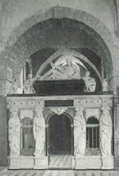 Henri Bourbon, Prince of Condé (1588–1646), Tomb at Vallery